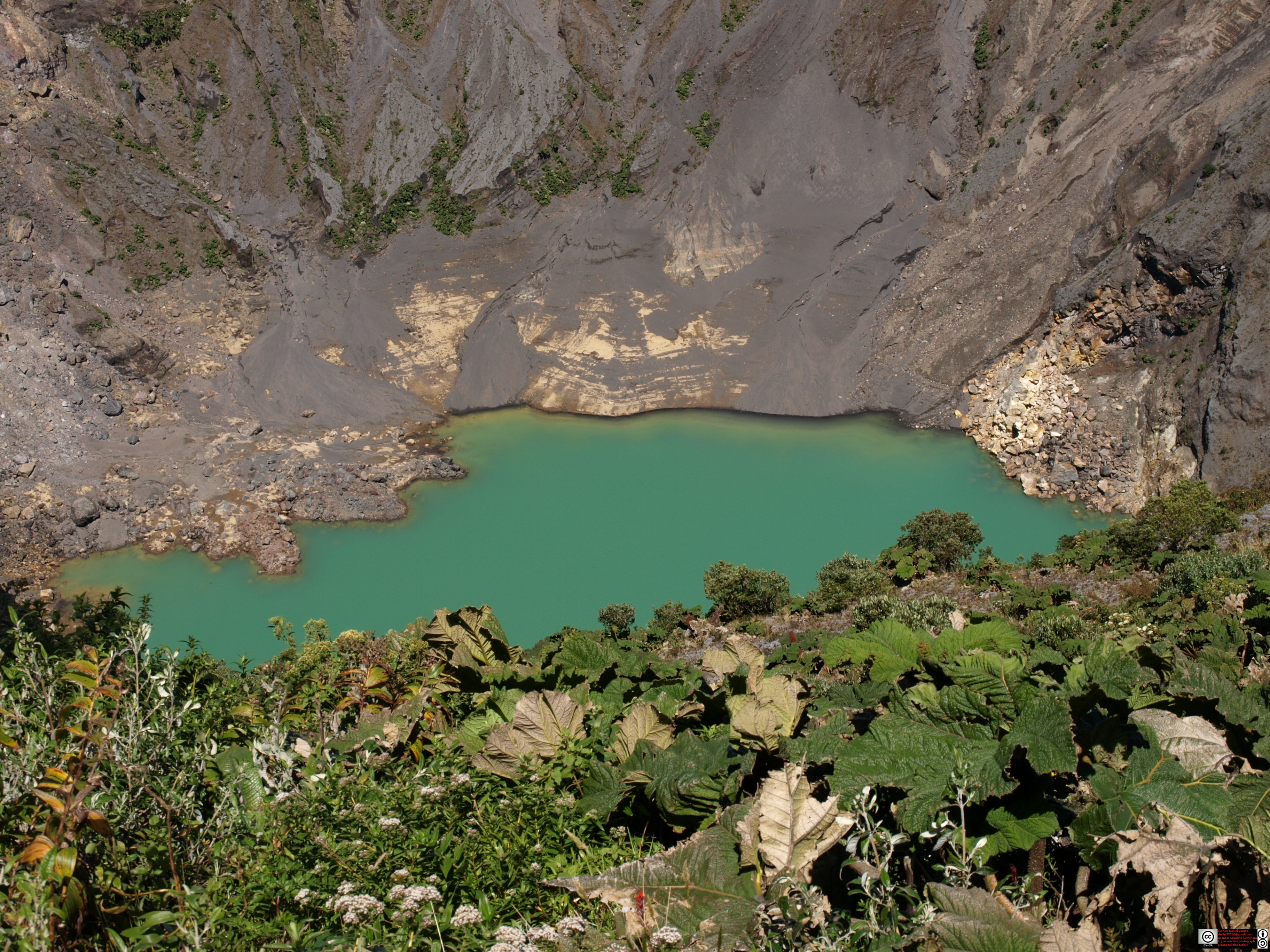 Main Crater Lagoon 2, Irazu Volcano, Costa Rica